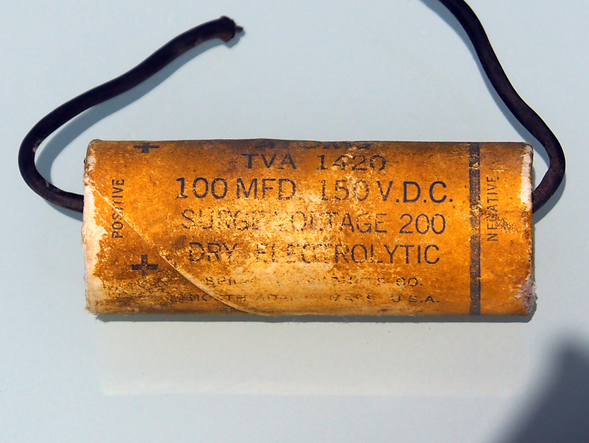 Photographed at Radio Relay Station Former USAF microwave relay station ACE-High system at Lefkada, Greece